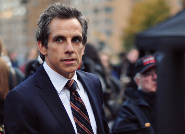 Ben Stiller in NYC, 2010, by Jiyang Chen